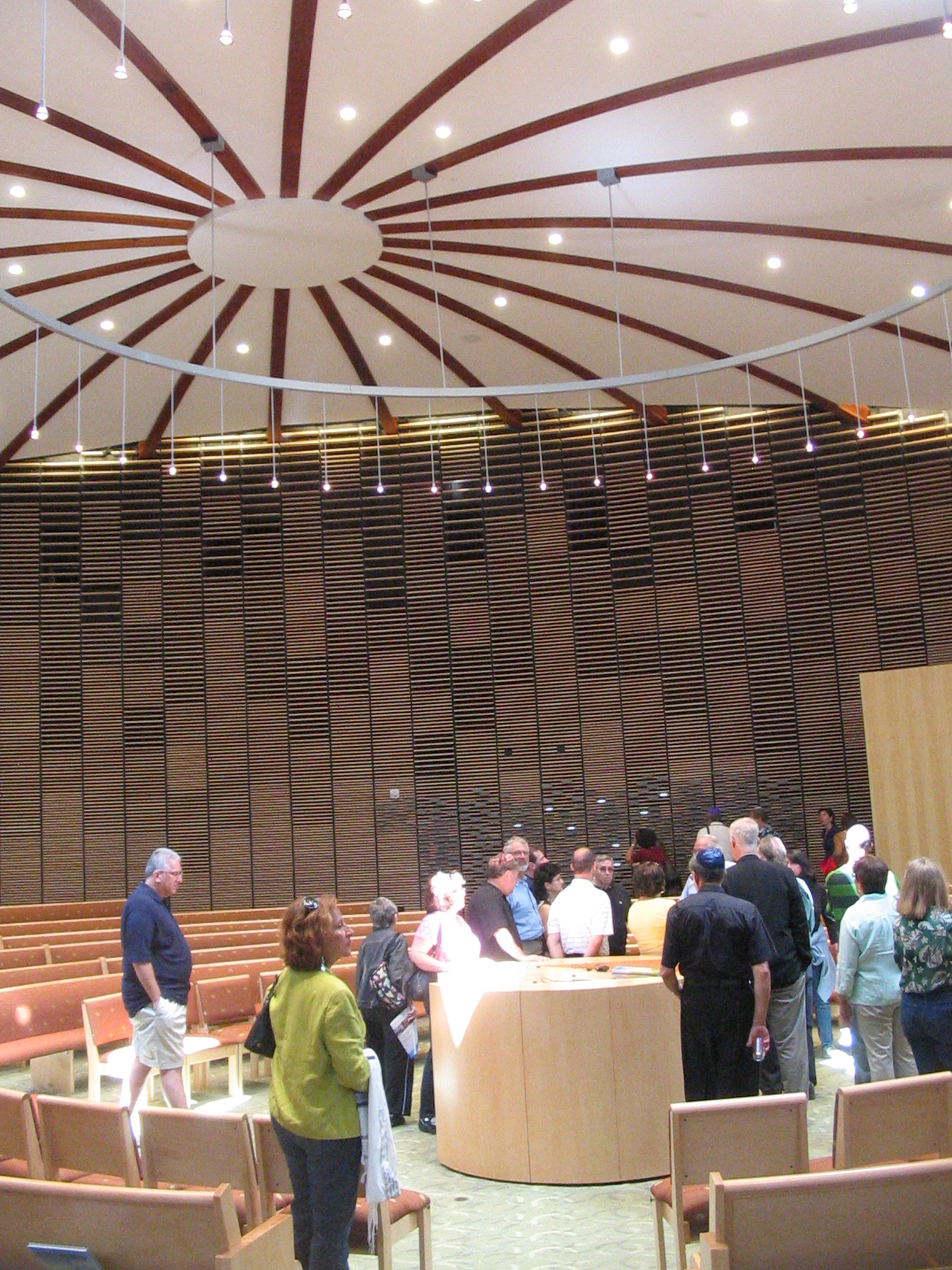 The newly remodeled Kol Shofar sanctuary in Tiburon, California.